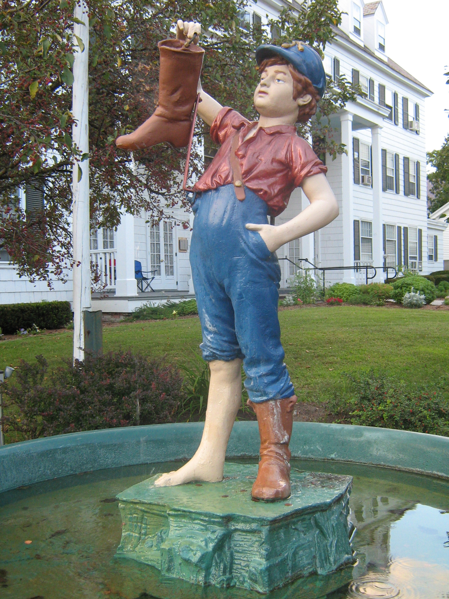 The Boy With The Boot, a cast sculpture/fountain, was a gift to the Town of Wallingford, Vermont in 1898, in memory of Arnold Hill, by his children. One of his sons, who lived in Chicago, had seen a similar statue there, and the siblings all agreed that such a statue would be a fitting memorial to their late father, who had been the owner of the Wallingford Inn from 1861-1871. It is presumed that damage of some sort (c1910) prompted him being stored away and seemingly forgotten until the Inn's new owner found him in the attic in 1920. He was restored, and has occupied this same position in front of the Inn ever since. He has become enough of a local icon to have been adopted as the official logo of the town.